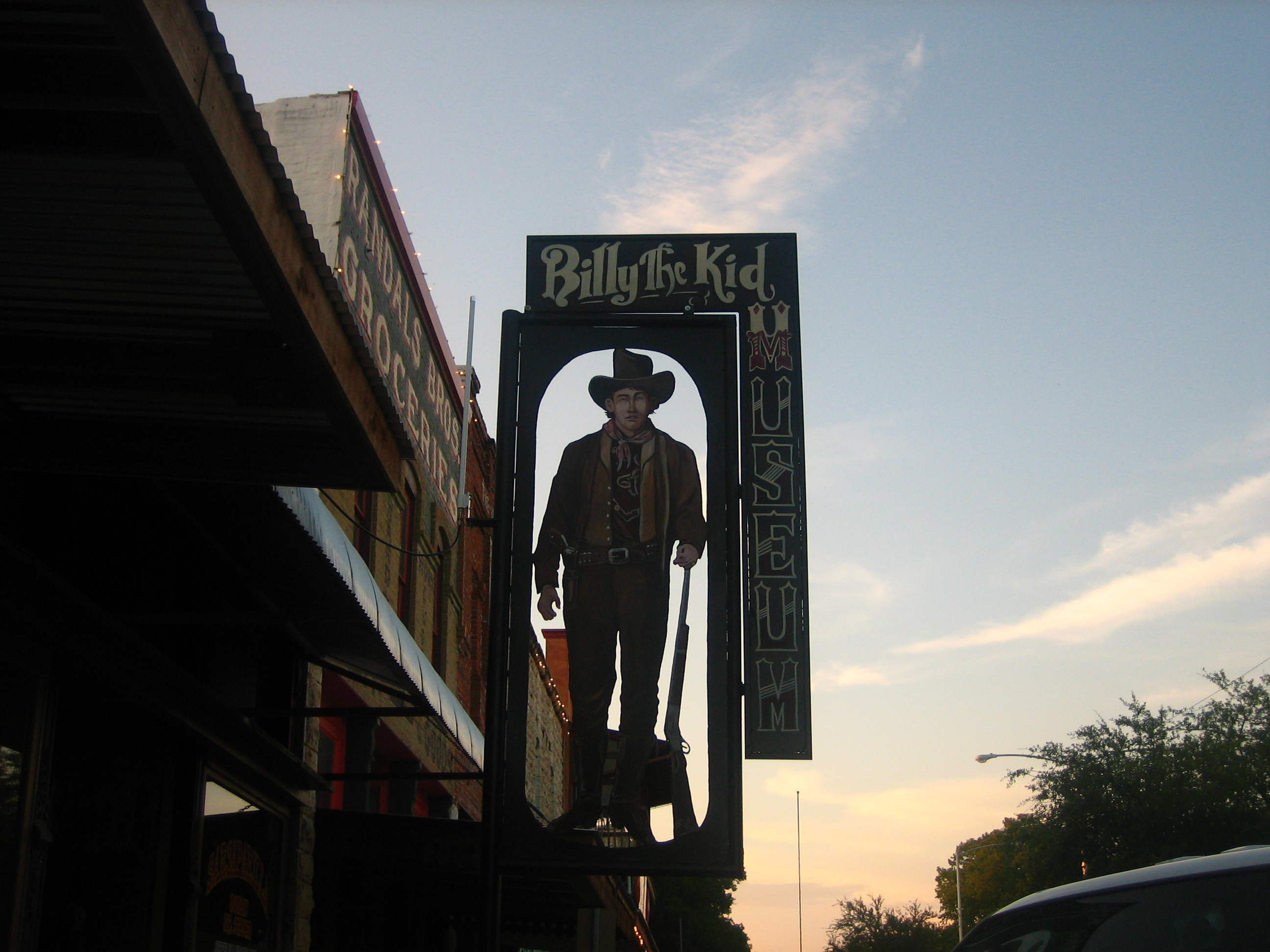 Sign for the Billy the Kid Museum in Hico, Texas.